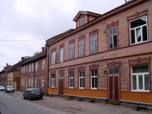 houses in tartu